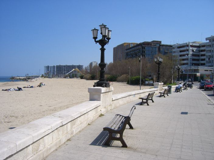 Bari, Italy, "Pane e pomodoro" beach